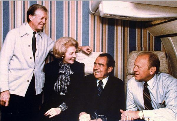 Former U.S. Presidents Jimmy Carter, Richard Nixon and Gerald Ford, pose with U.S. Chief of Protocol Leonore Annenberg during their flight from Washington to attend the funeral of Egyptian President Anwar Sadat in 1981.